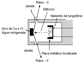 Um Tubo de Raio-X mais Detalhado apresenta dois tipos de Raios-X.